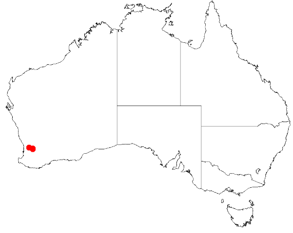 Acacia brachypoda occurrence data map from AVH downloaded from on 8 December 2018